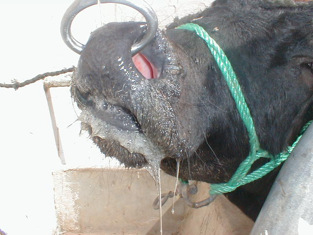 Bovine malignant catarrhal fever: foamy saliva; diffuse inflamation of nose cavity